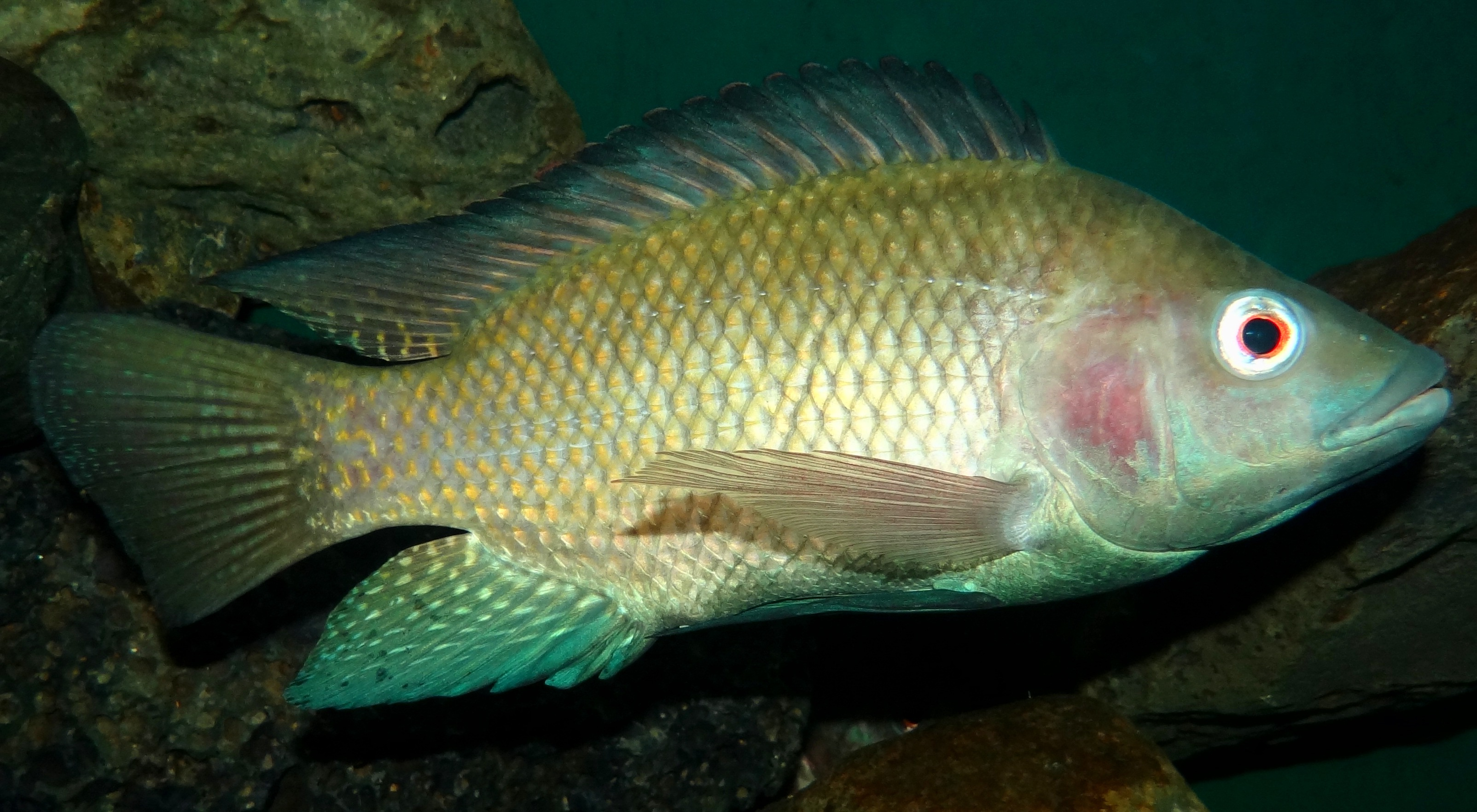 A Nile tilapia photographed at the Snake Park in central Nairobi.